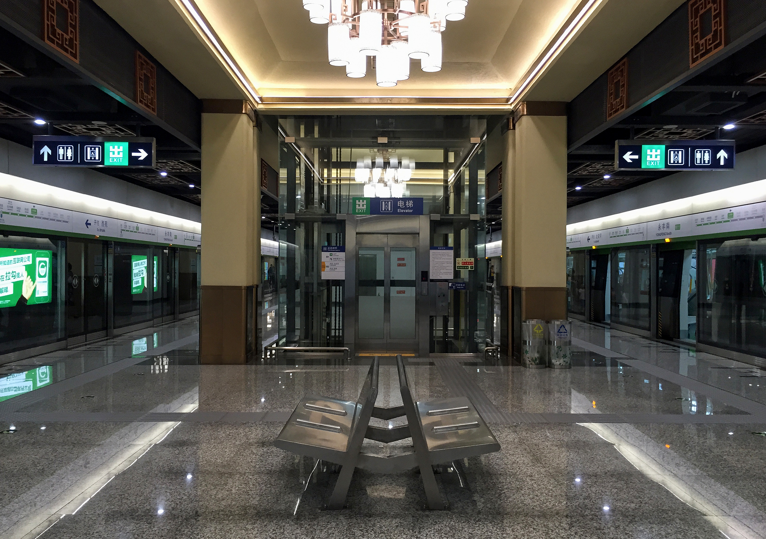 Car M3 has an advantage of having vacant seats... 17/07/17, same backward.